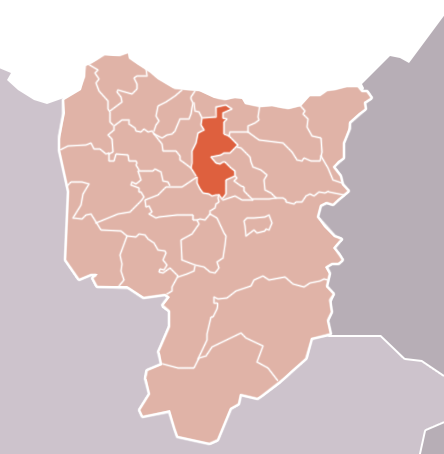 M'hajer